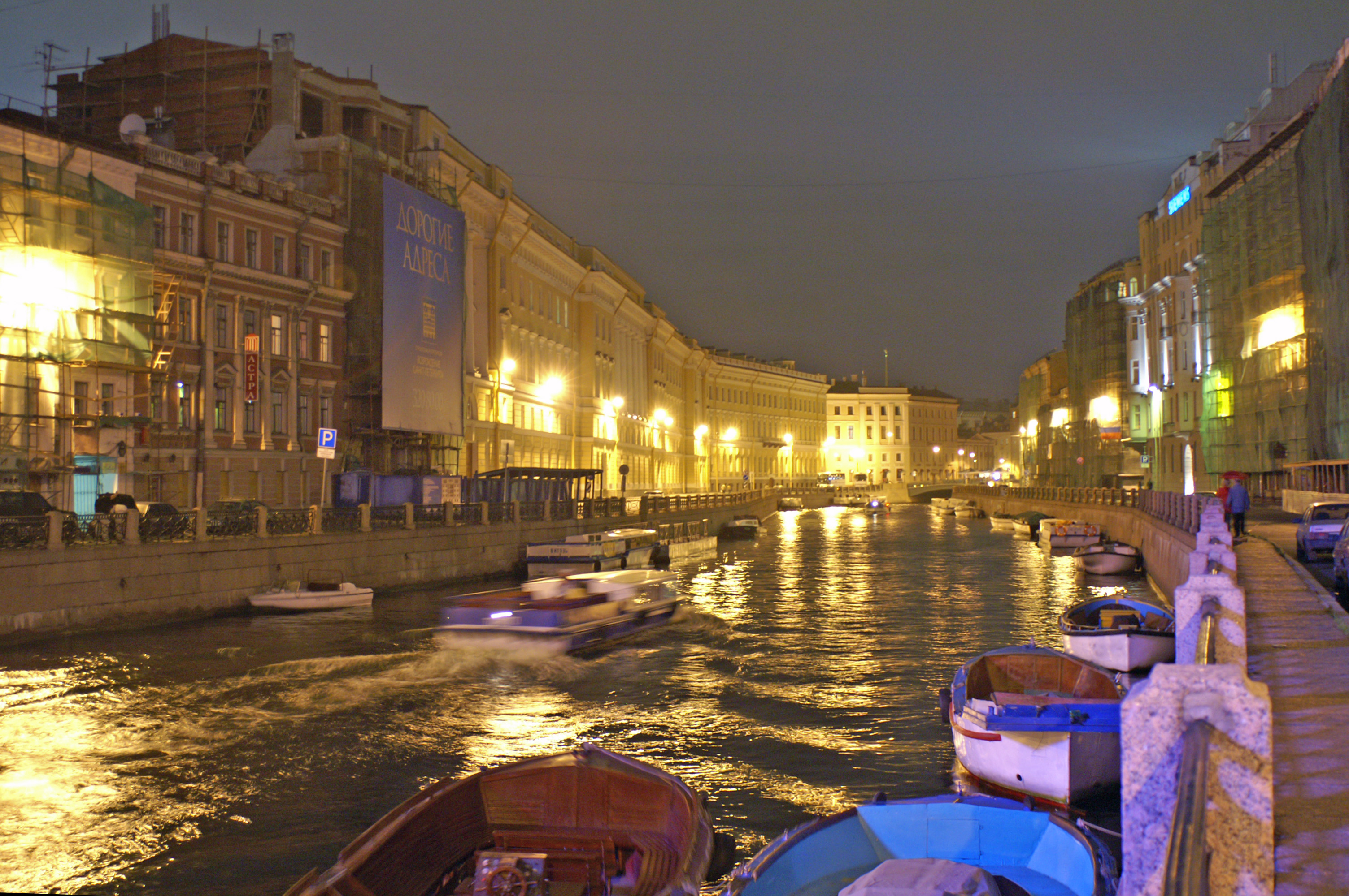 Sankt Petersburg. Moyka river